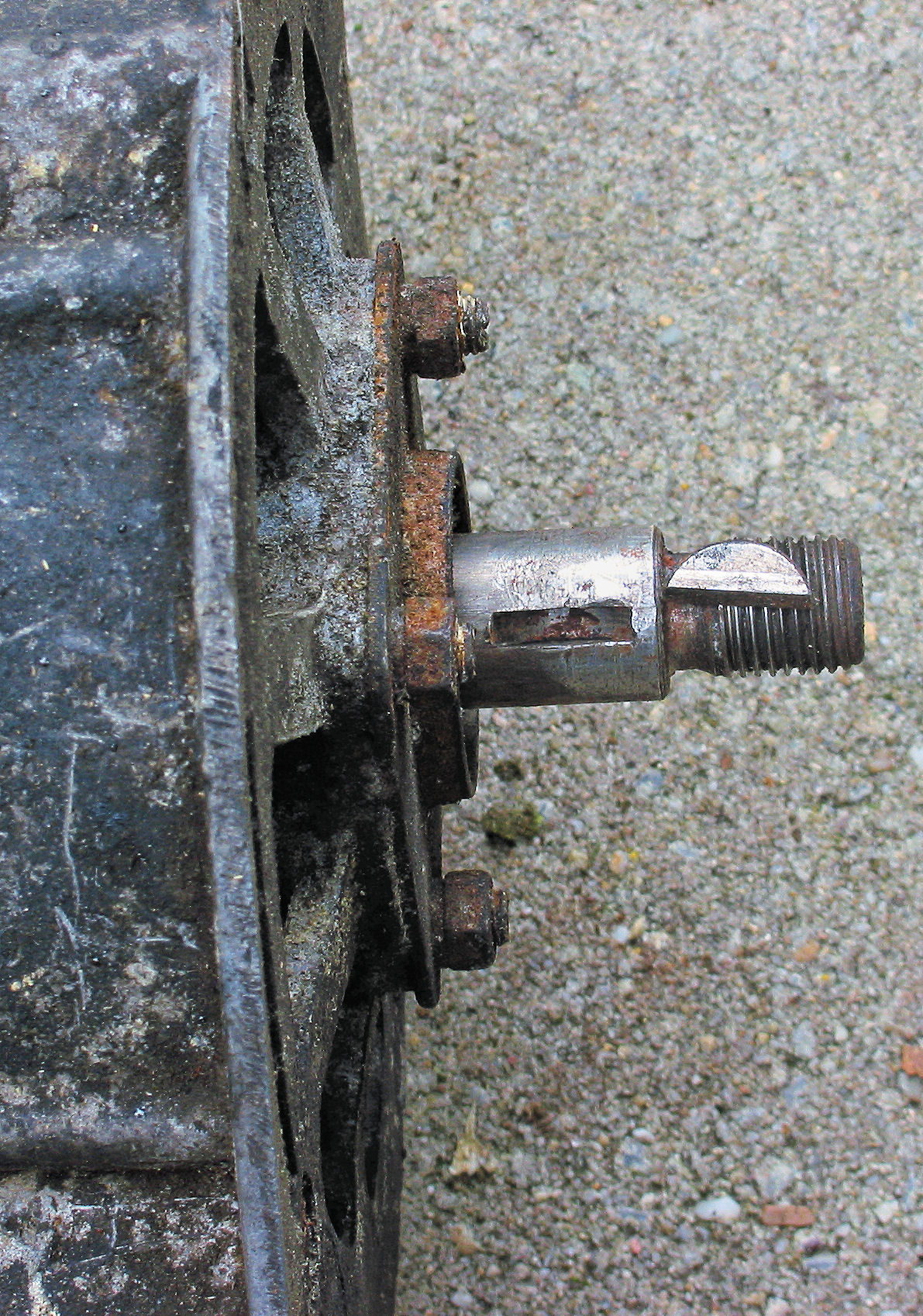 An alternator shaft with the Woodruff key removed